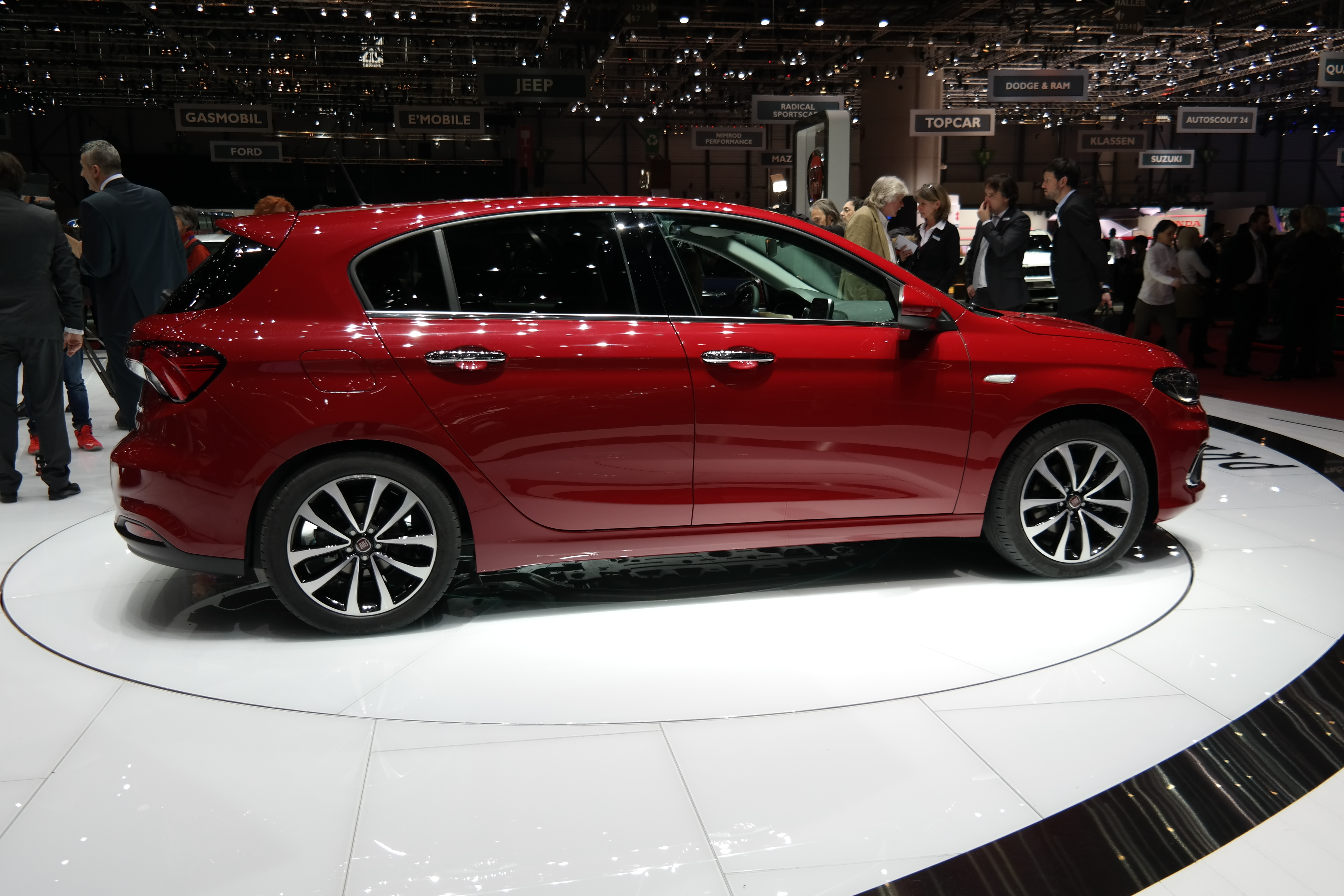 Geneva Motor Show 2016 (photo taken on the first press day)